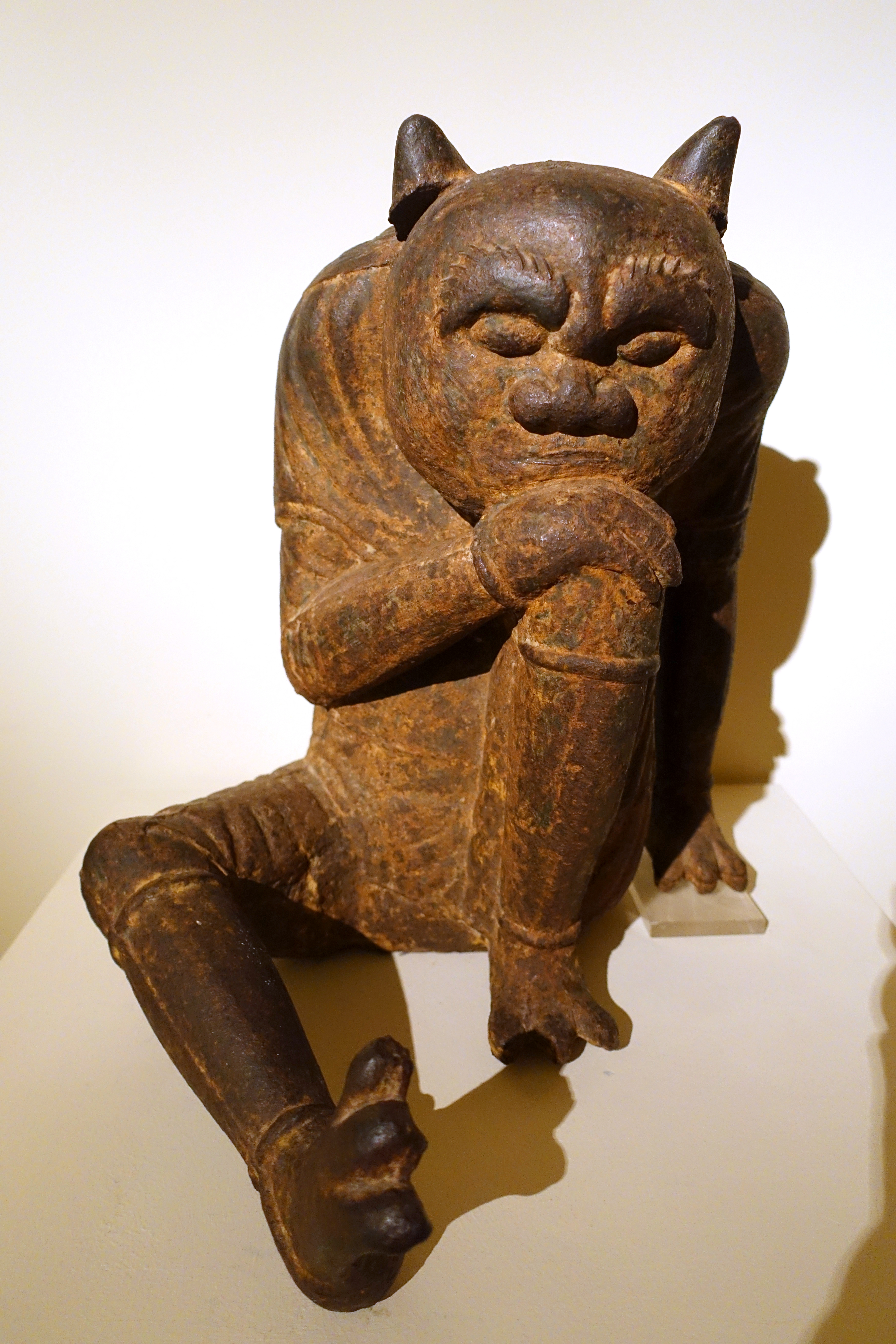 Exhibit in the Ethnological Museum, Berlin, Germany.